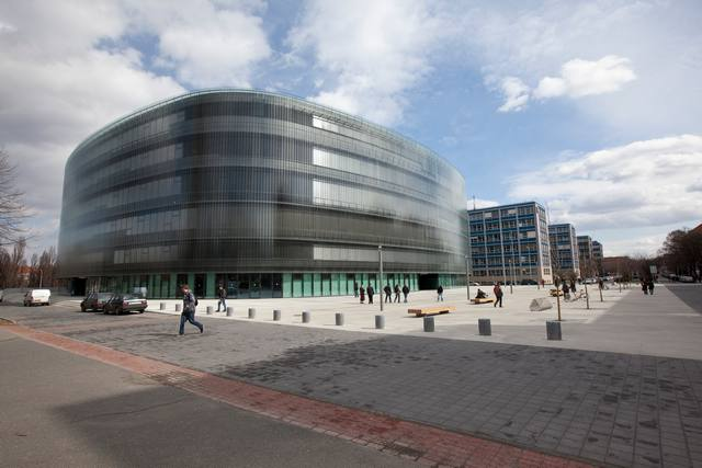 Czech National Technical Library in the CTU campus in Dejvice, Prague